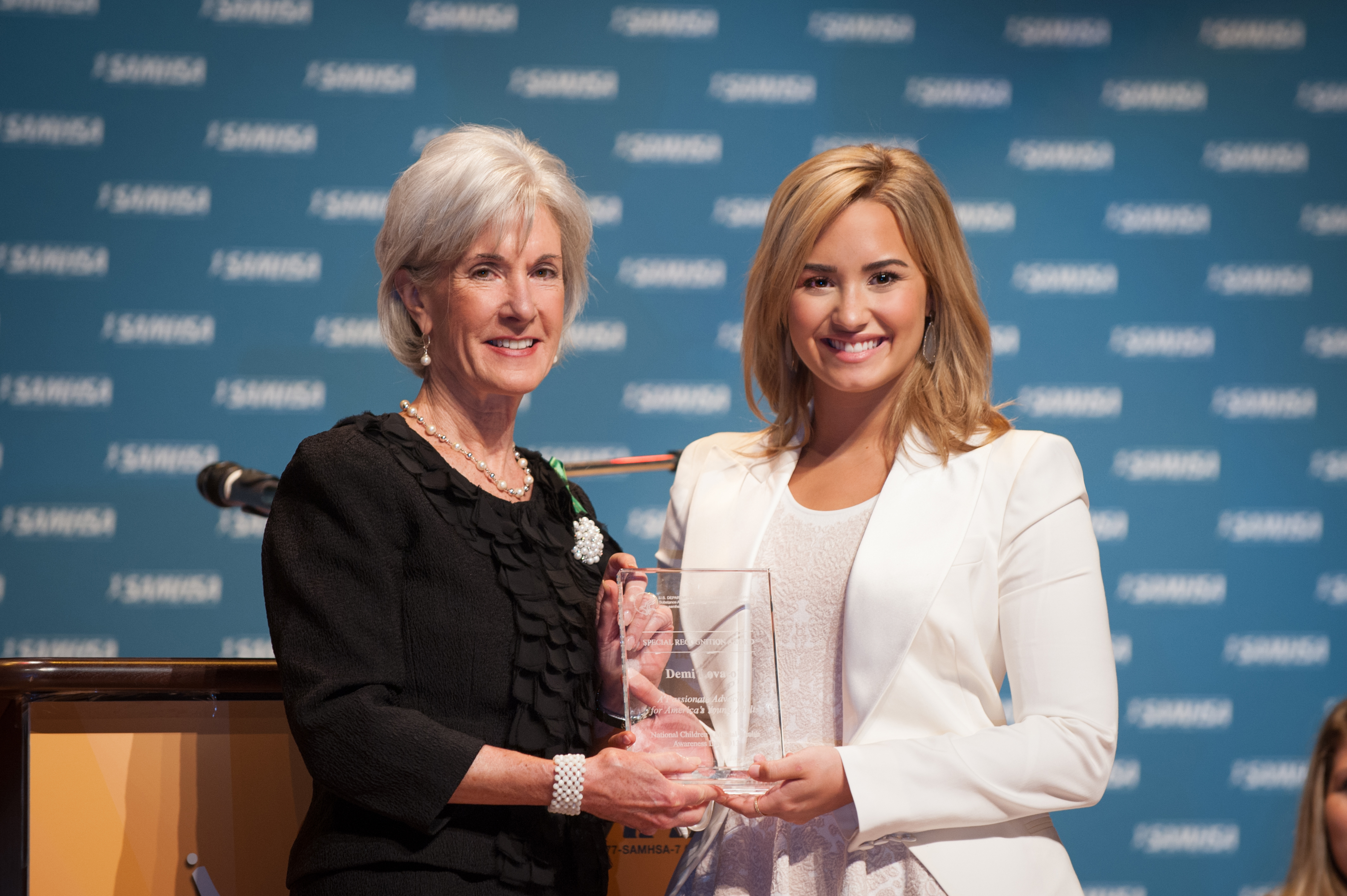 U.S. Department of Health and Human Services Secretary Kathleen Sebelius presented chart-dominating singer, songwriter, and actress Demi Lovato, Honorary Chairperson of National Children’s Mental Health Awareness Day 2013, with an award for her advocacy work on behalf of young adults with mental health and substance use challenges during the Awareness Day 2013 press briefing held at the Theater of the Performing Arts at the University of the District of Columbia Community College on May 7, 2013. Visit for more information.